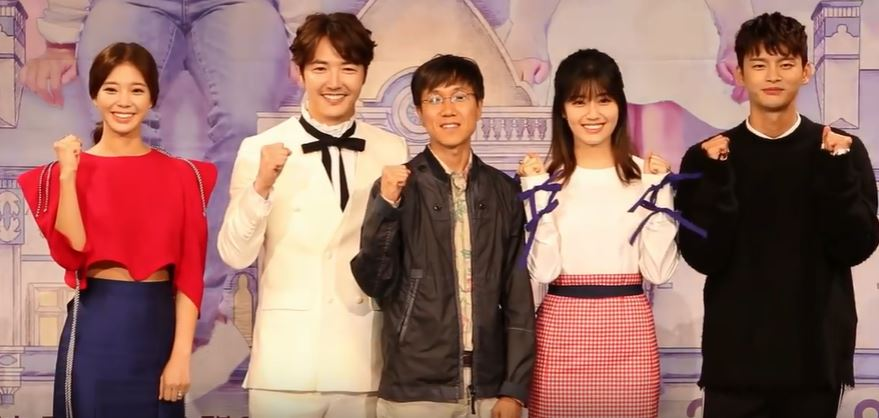 Shopaholic Louis press conference